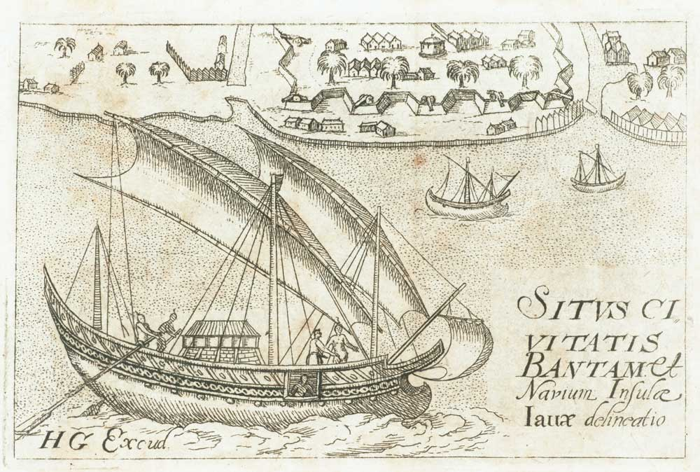 View of the Bantam city and sketch of ships from Java island. Bantam here refers to the city of Banten, now it is a name of a province in Indonesia. The ships from Java are the javanese jong ships.